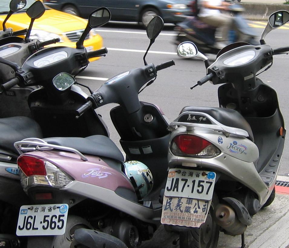 Scooters in Taiwan and text of "Taiwan Province" on the license plates. Photograph taken by User:Jiang along Zhongxiao East Road, Taipei City.